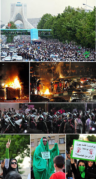 2009 Iranian election protests